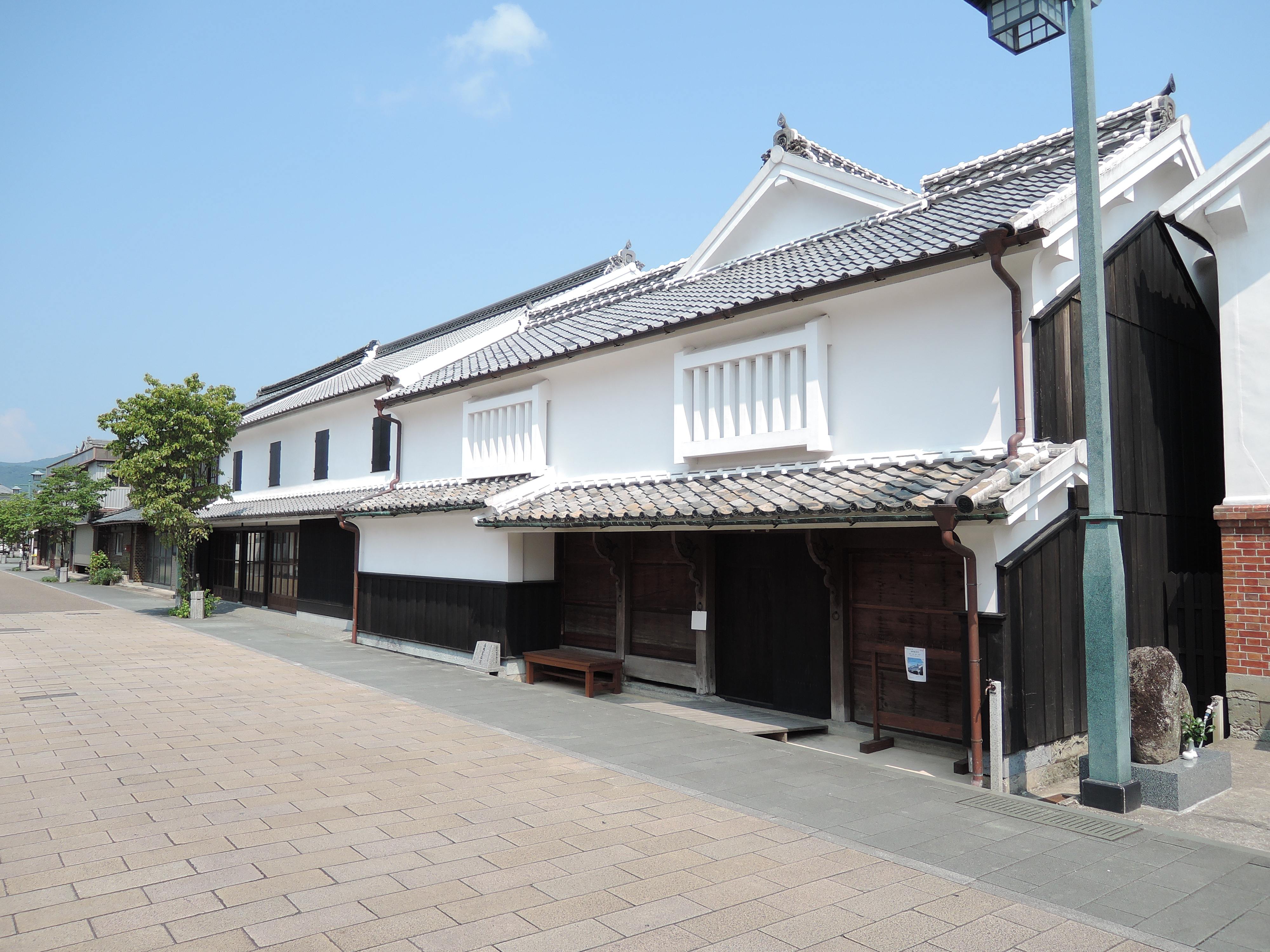 Nishioka residence (Shiota, Ureshino, Saga, Japan)